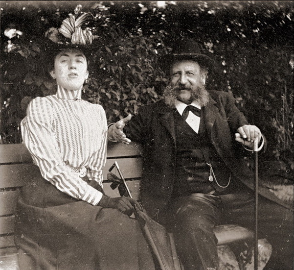 Katarina and Konstantin Jovanovic (the architect), daughter and son of Anastas Jovanovic, sitting at the bench in Kelemegdan park